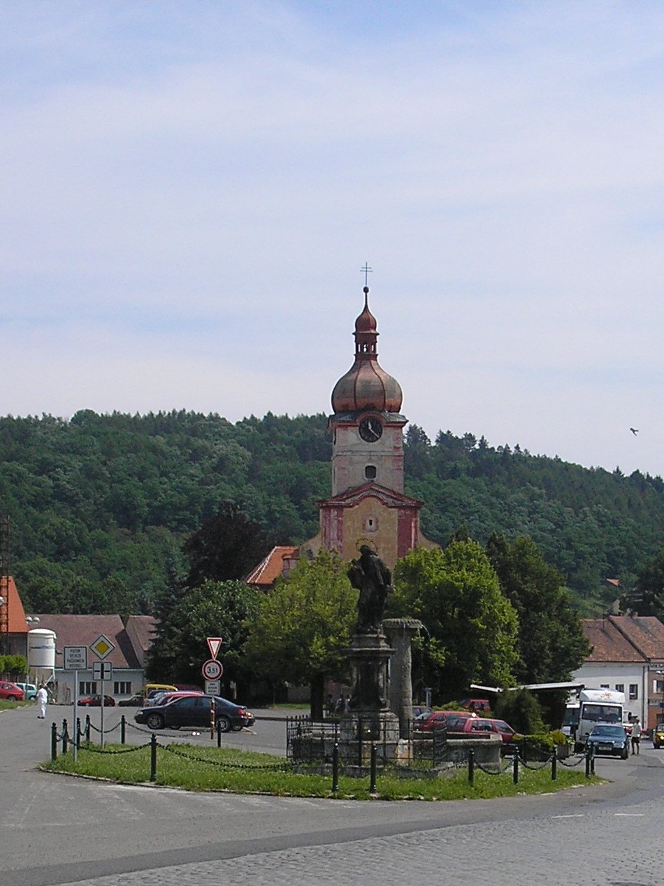 Square of Radnice city (Rokycany district, Czech republic)